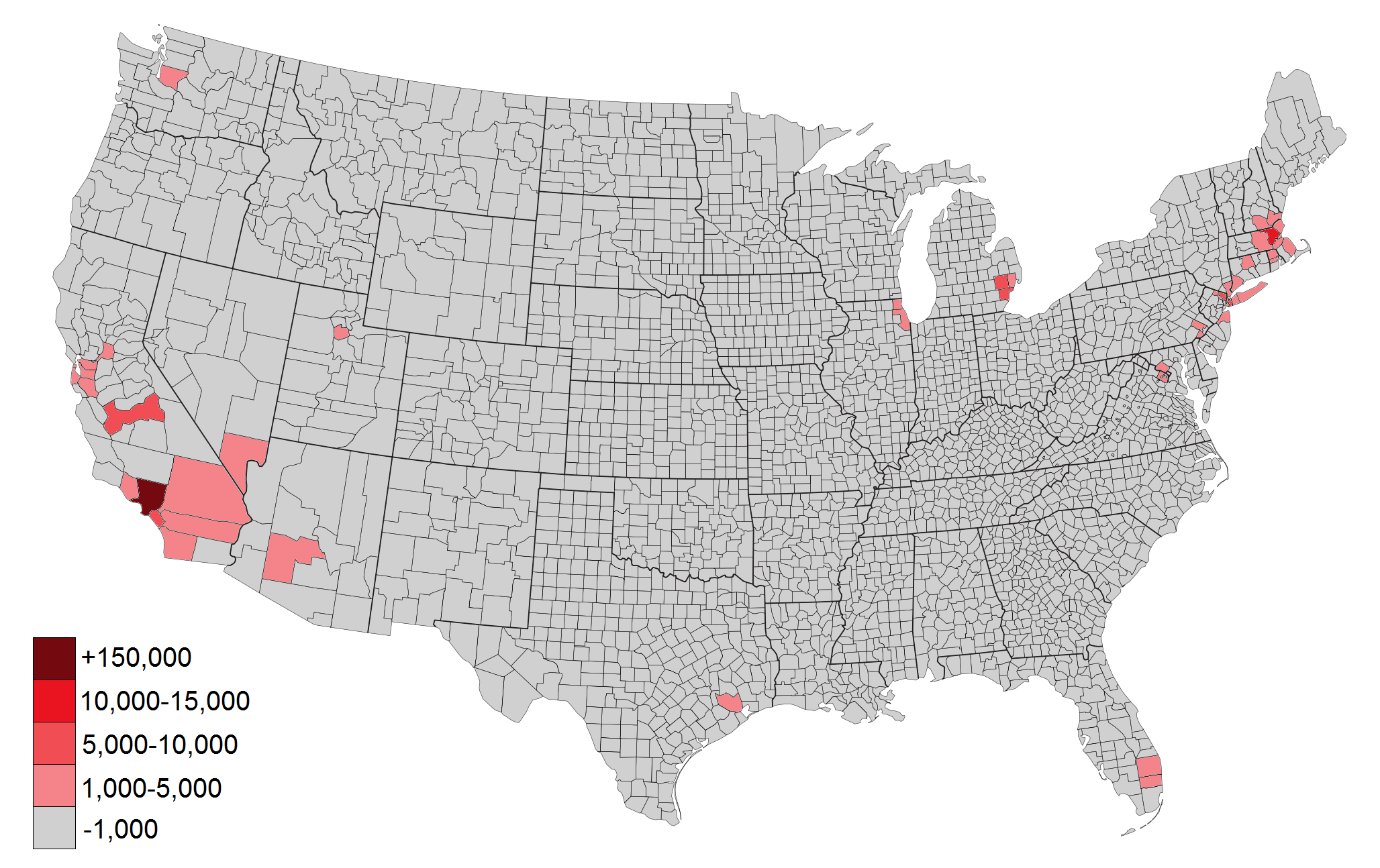 Armenians the United States by county according to the 2000 census.